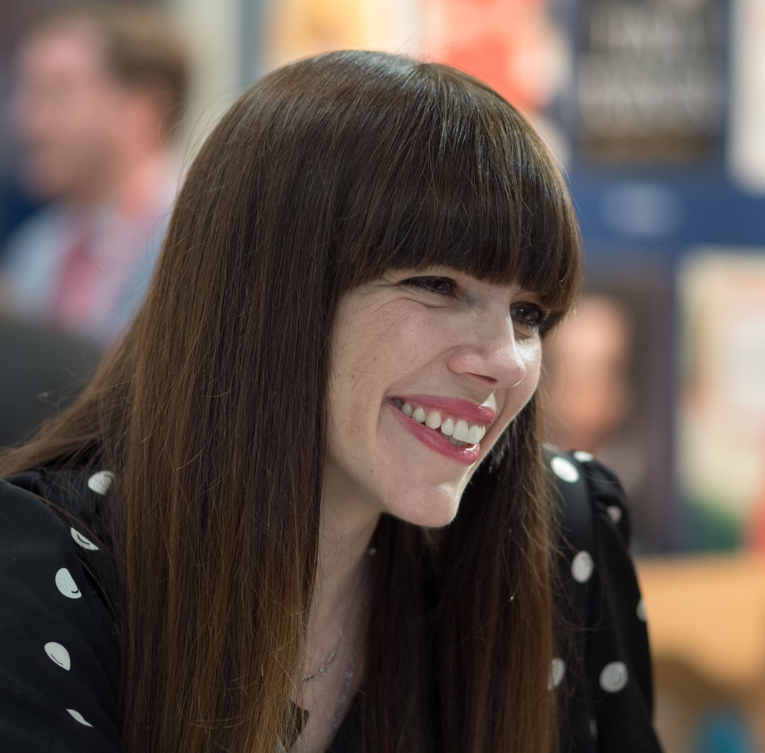 Kate Morton BookExpo America 2018 at the Javits Convention Center in New York City.